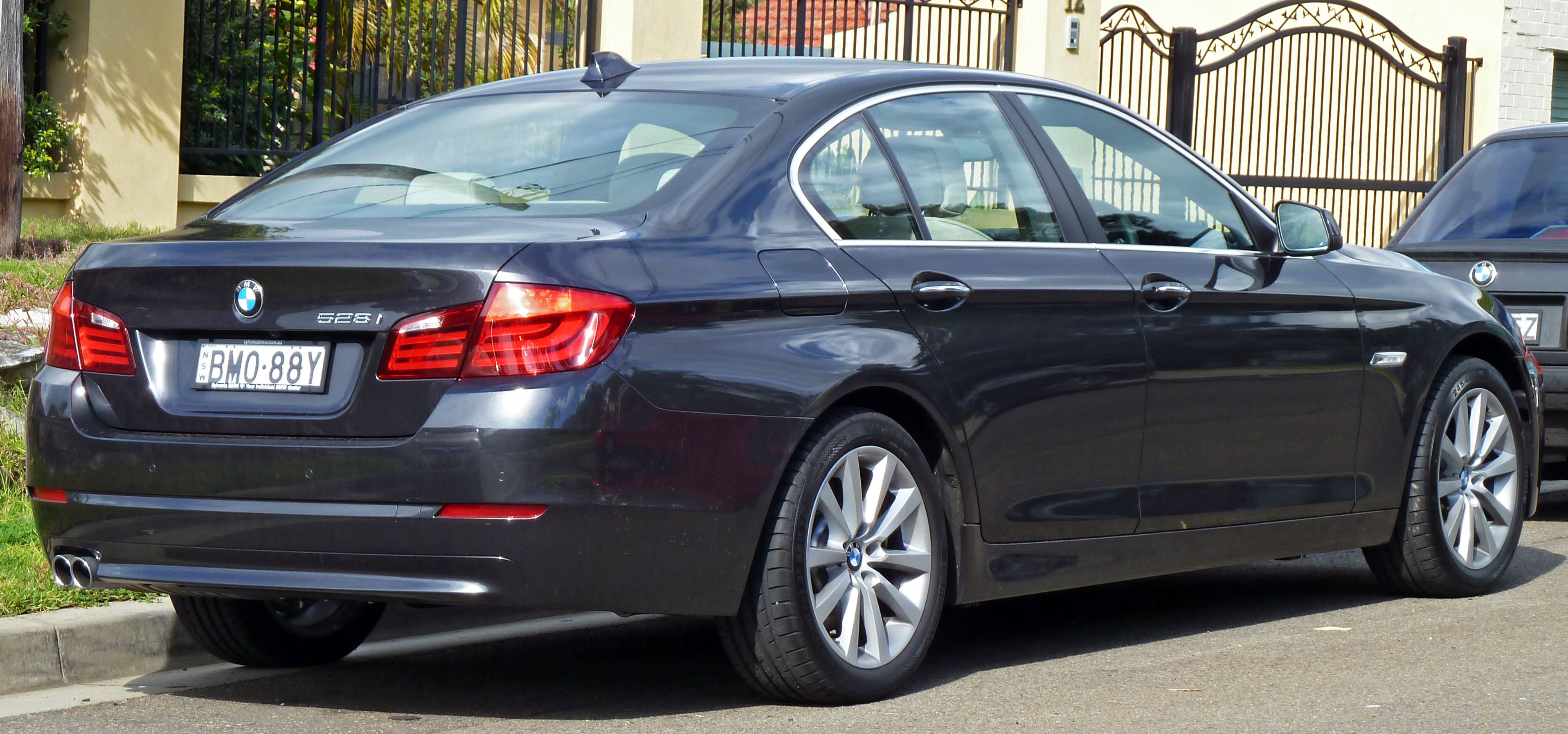 2010 BMW 528i (F10) sedan. Photographed in Sylvania, New South Wales, Australia.